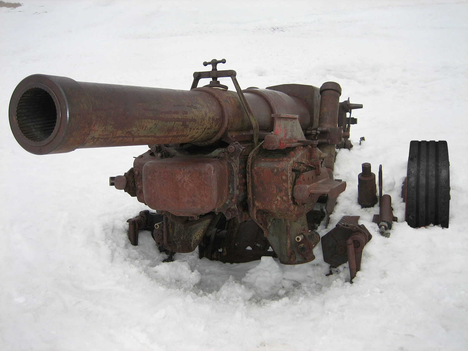 Italian howitzer OTO Melara 149/19 M1937 at the top of the Serauta funitel (Marmolada, Italy)